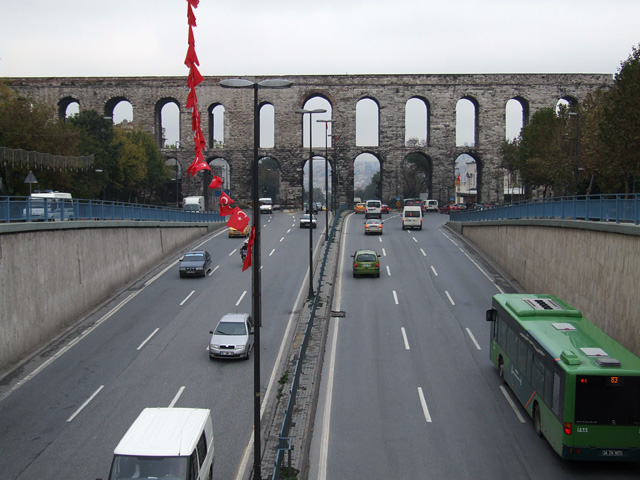 Akveduk Valenta / Aqueduct buuilt by Roman emperor Valens